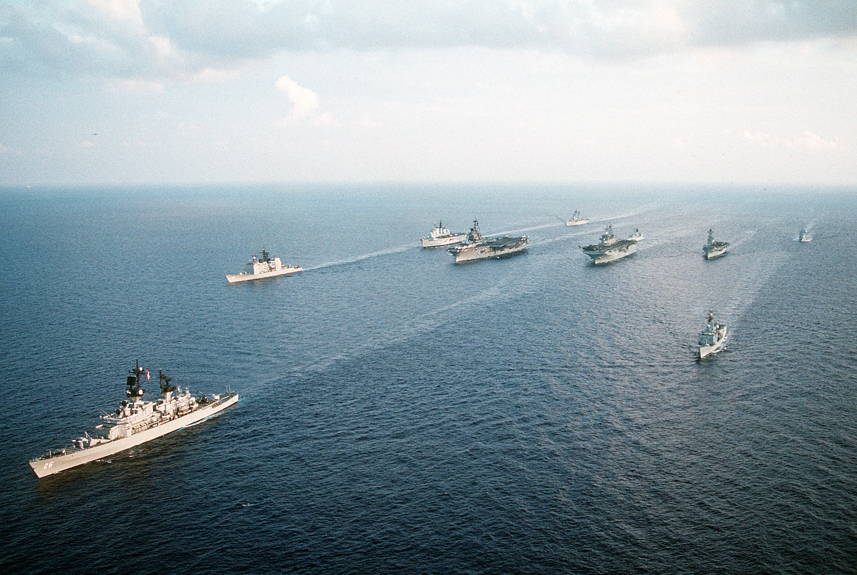 The guided missile cruiser USS BELKNAP (CG-26), lower left, steams at the front of the battle group assembled for the NATO exercise Display Determination '91. Behind the BELKNAP is the guided missile cruiser USS YORKTOWN (CG-48), upper left. In the third rank are, from left: the British light aircraft carrier HMS INVINCIBLE (R-05), the aircraft carrier USS FORRESTAL (CV-59), the amphibious assault ship USS WASP (LHD-1) and the Spanish aircraft carrier PRINCIPE DE ASTURIAS (R-11).